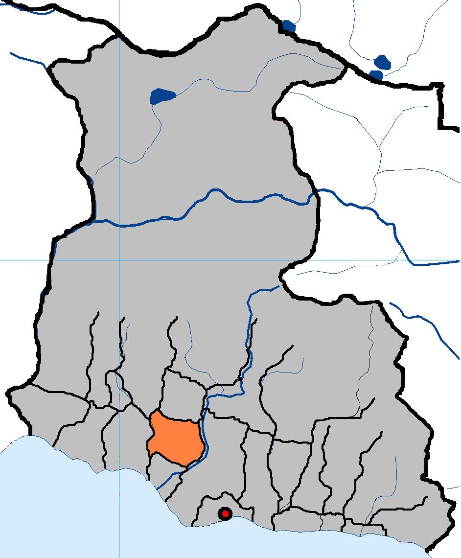 Map showing the location of the village Zvandripsh in Abkhazia.